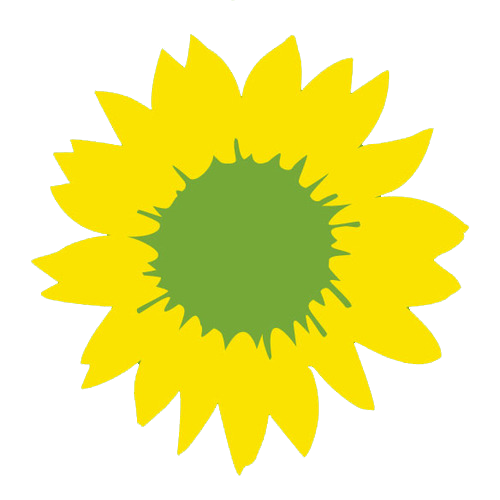 This symbol belongs to Green politics.